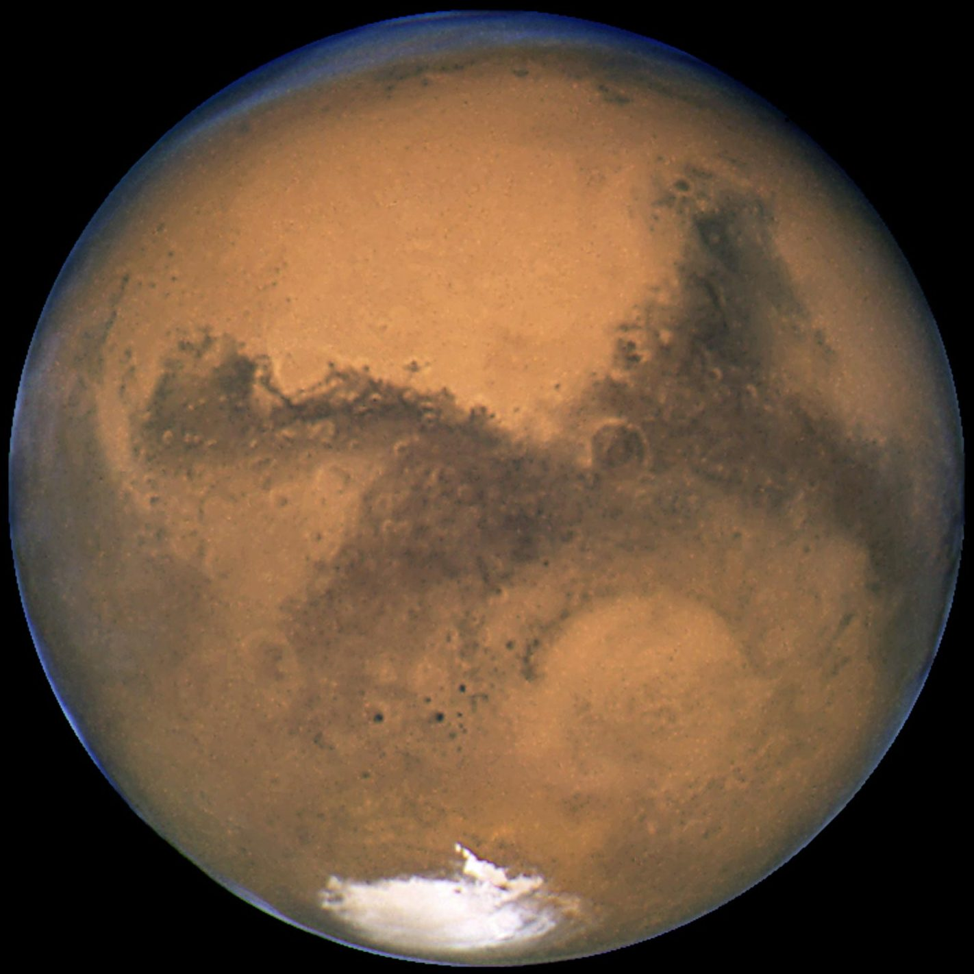 Photograph of Mars taken by the Hubble Space Telescope during opposition in 2003.